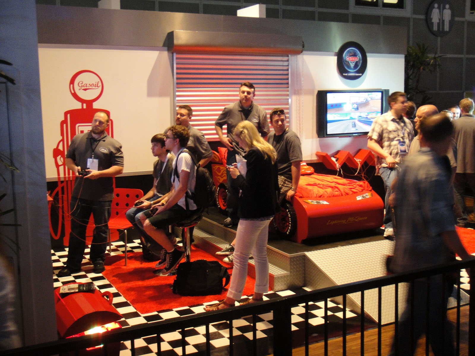 A photo of Cars 2 at E3 2011, taken by Doug Kline.